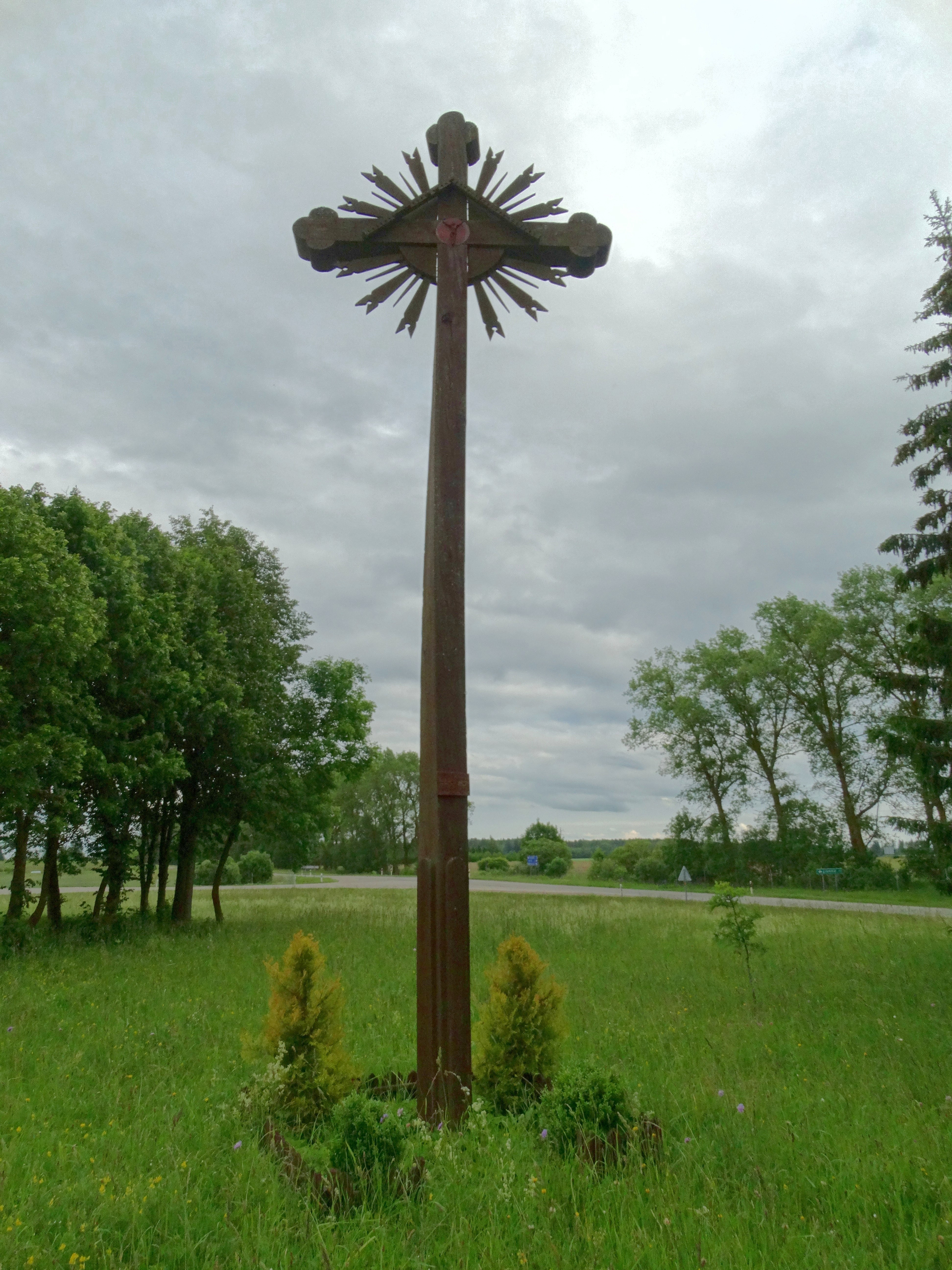 Baltic Way cross, Spadviliškiai, Širvintos District, Lithuania